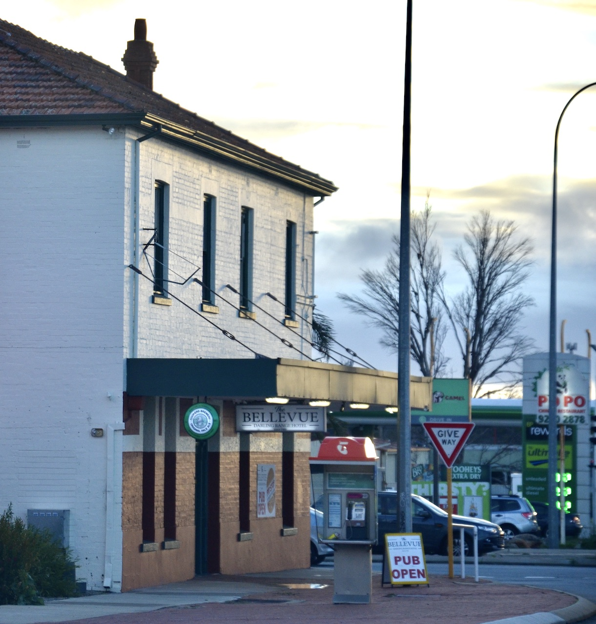 Pub Open sign at The Bellevue Darling Range Hotel